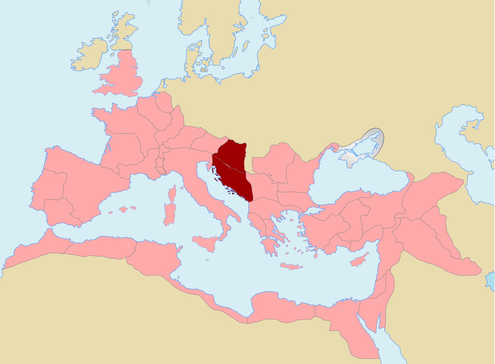 Illyricum